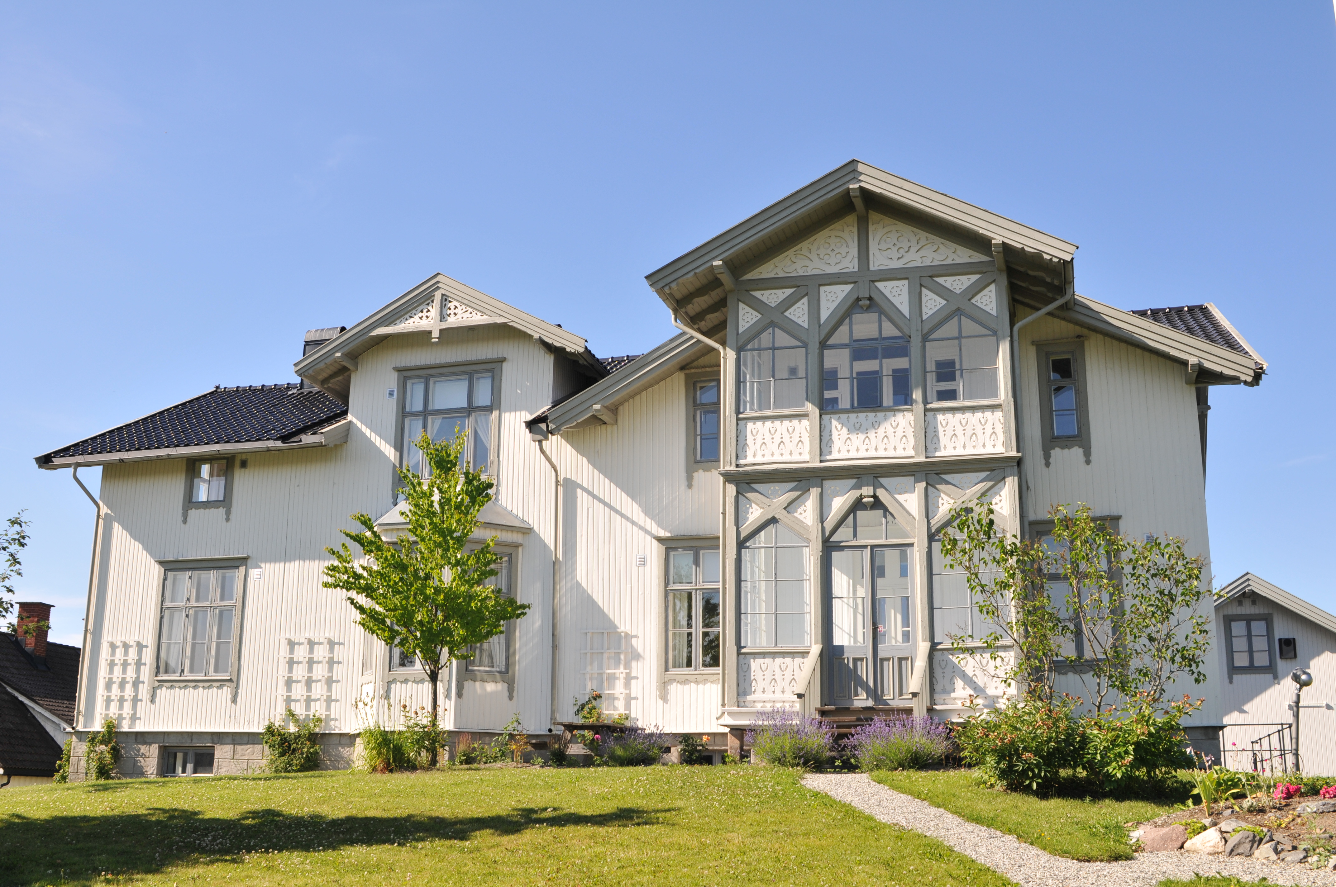 Hasselbakken in Askerveien 47, Asker, Norway